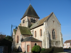 L'église de Sennely, prise par la mairie de Sennely.